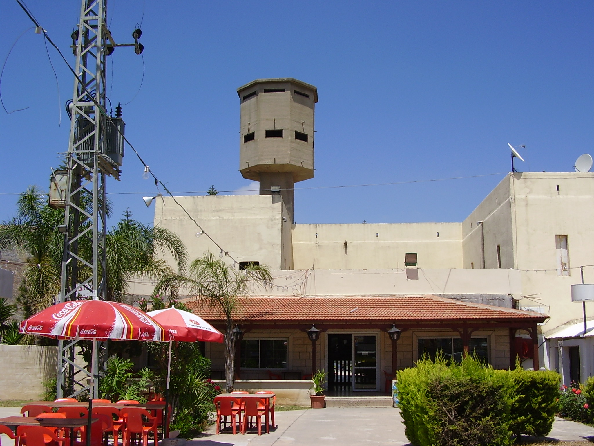 british mandate police building in majd el krum